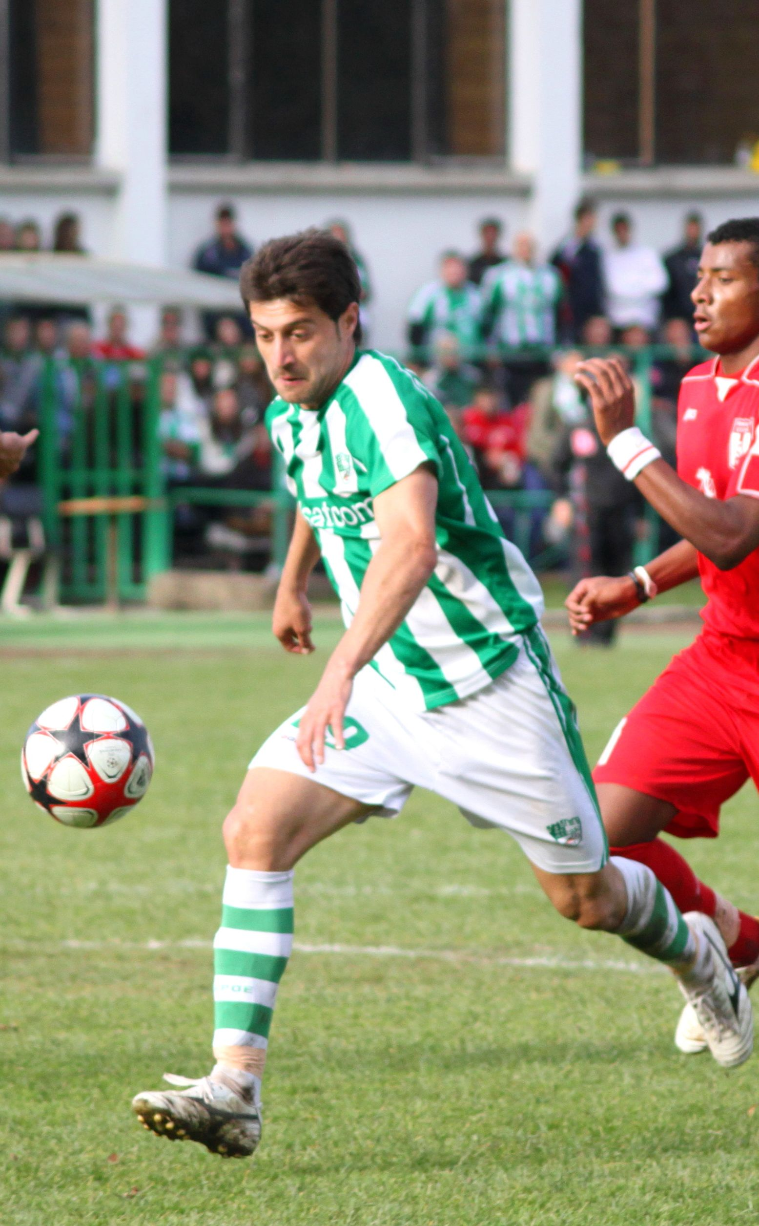 Vladislav Zlatinov (Bulgarian: Владислав Златинов) (born 23 March 1983) is a Bulgarian football player, currently playing for Beroe Stara Zagora as a striker